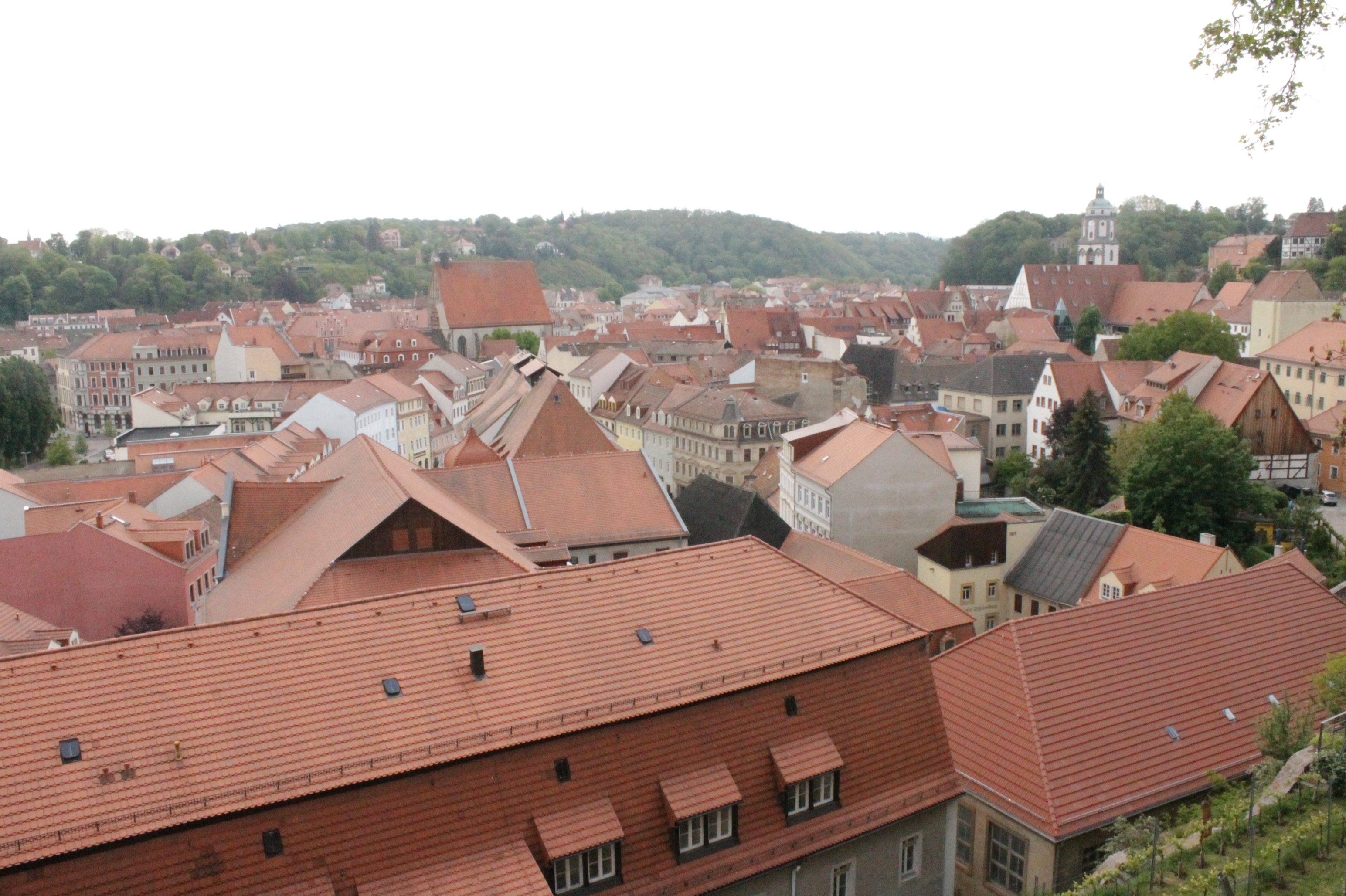 Roofscape of Meissen's old town